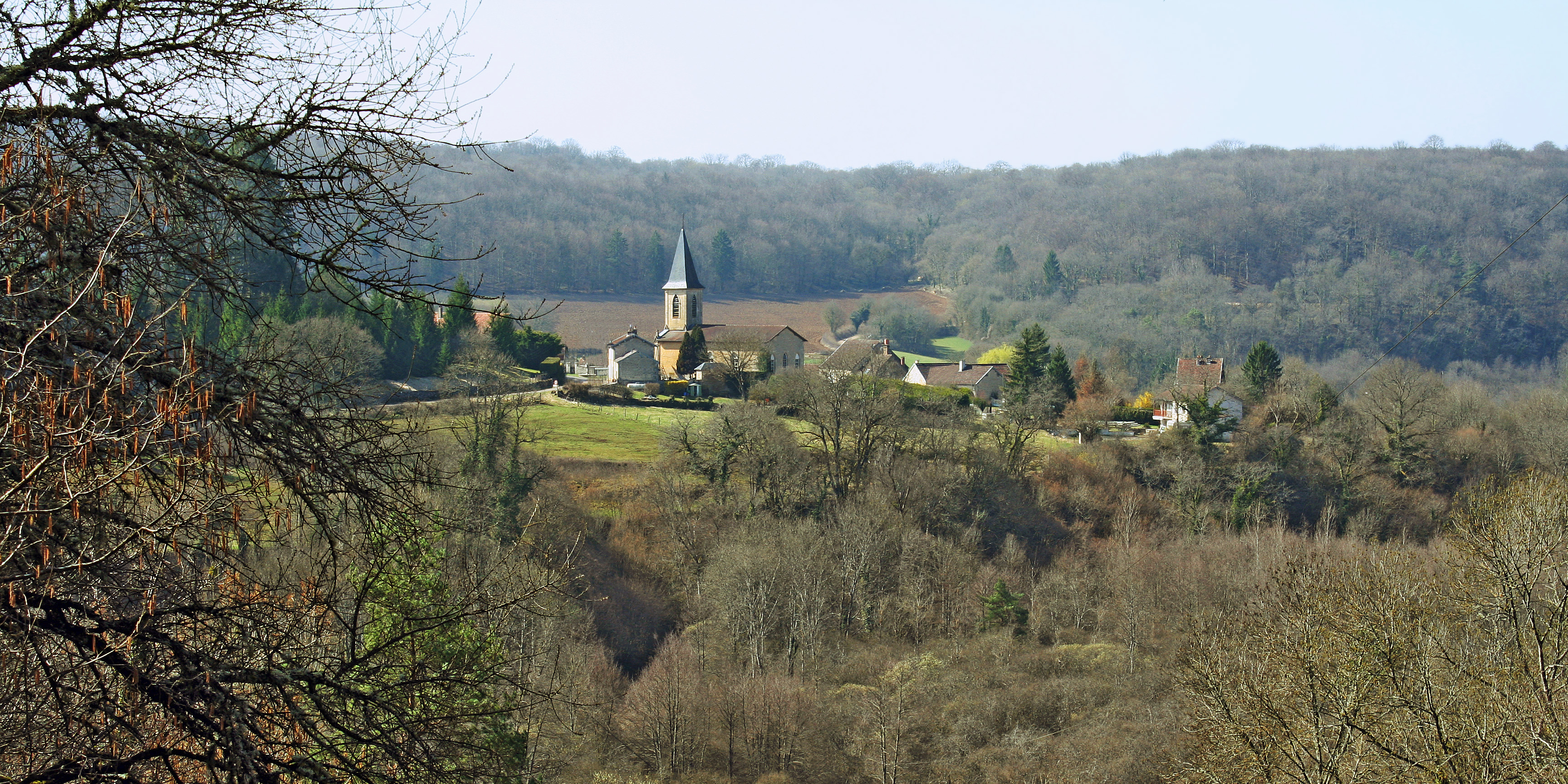 The village Busseaut in Brévon's valley